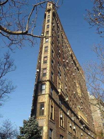 Looking northwest at Rosario Candela's 47 Plaza Street West, Brooklyn, NY